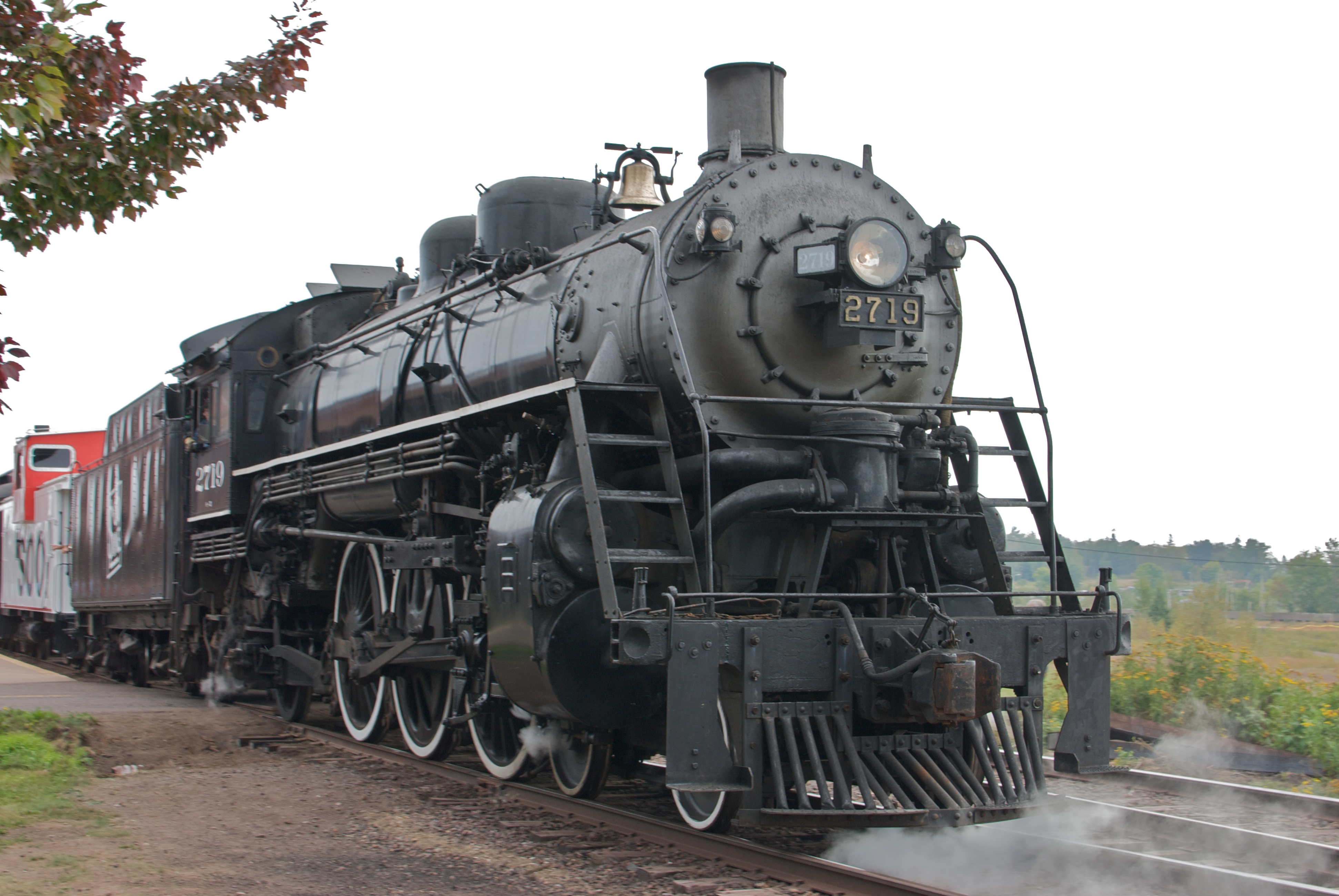 Soo Line 2719 was built in May, 1923 in Schenectady, New York. It was one of six H-23 Pacific Class 4-6-2 steam locomotives built for the Soo Line. It operated until the mid-1950s when it was overhauled and put into storage. It was brought out of retirement to haul the last steam trains on Soo Line's tracks in 1959. It currently lives at the Lake Superior Railroad Museum and used as the motive power for the North Shore Scenic Railroad each Fall. I took this shot as the locomotive backed into the station at Two Harbors, MN.